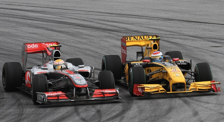 Formula One 2010 Rd.3 Malaysian GP: Lewis Hamilton (McLaren) overtaking Vitaly Petrov (Renault).